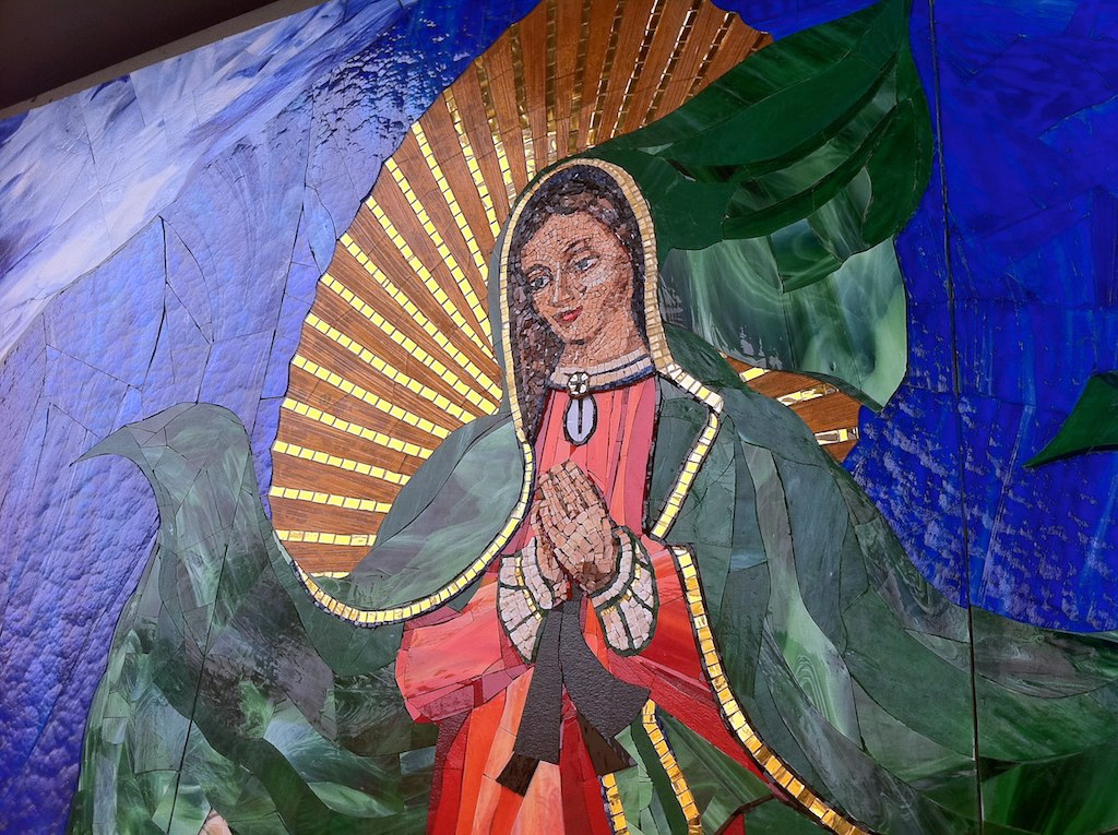 Surfing Madonna Mural in Encinitas, CA (detail)